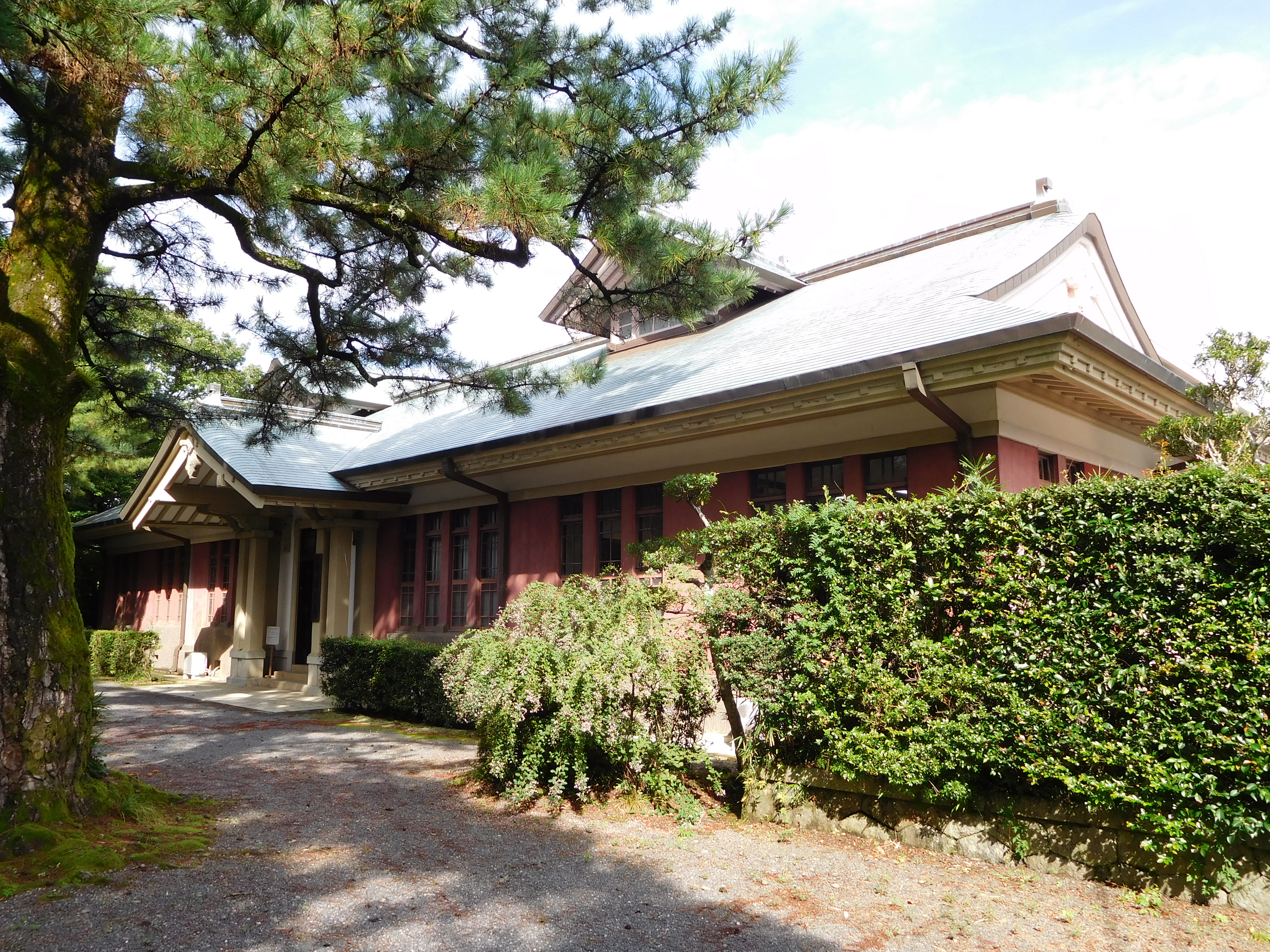 This is the Jingu-bunko (library of Jingu) in Ise, Mie, Japan.